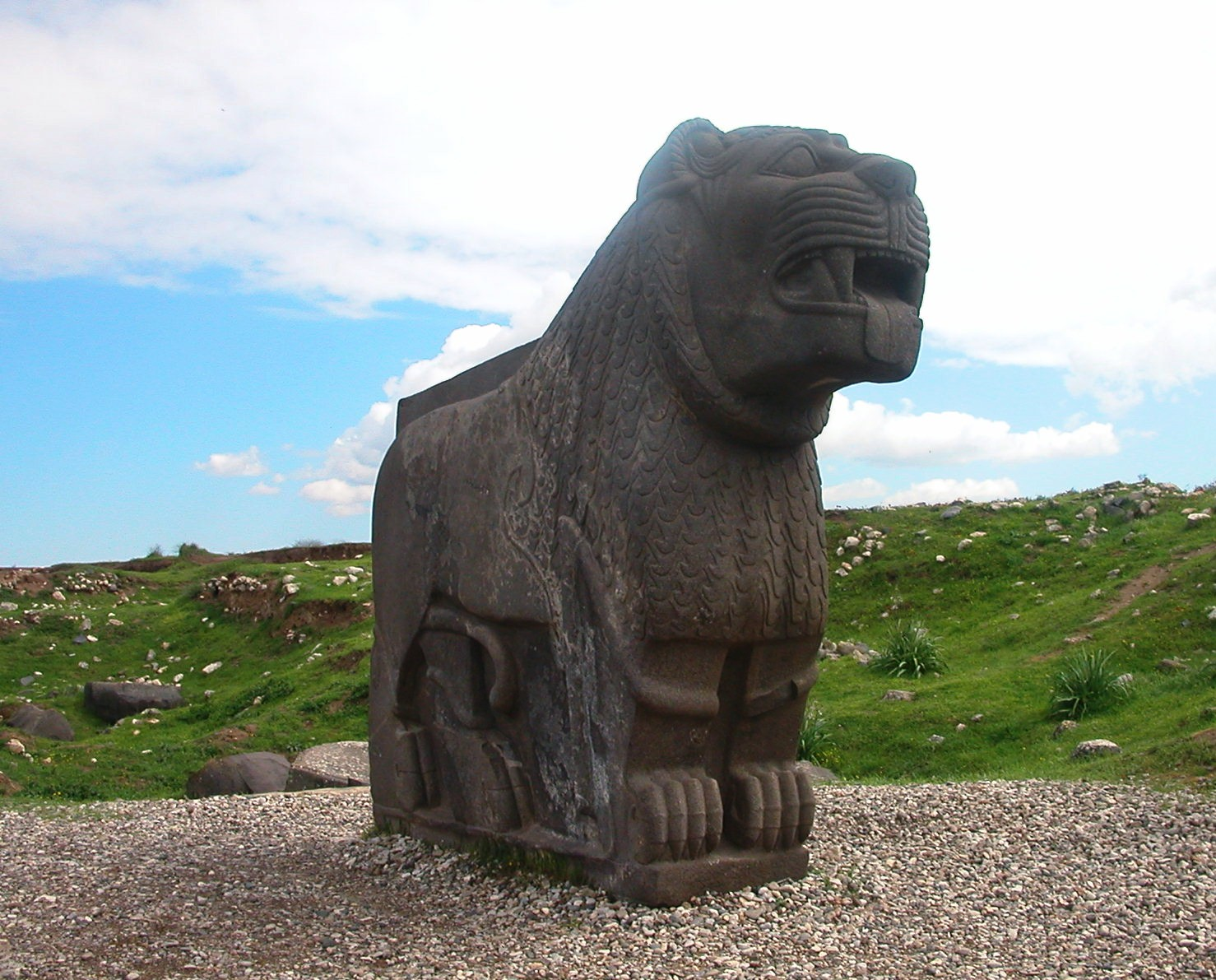 Ain Dara temple lion